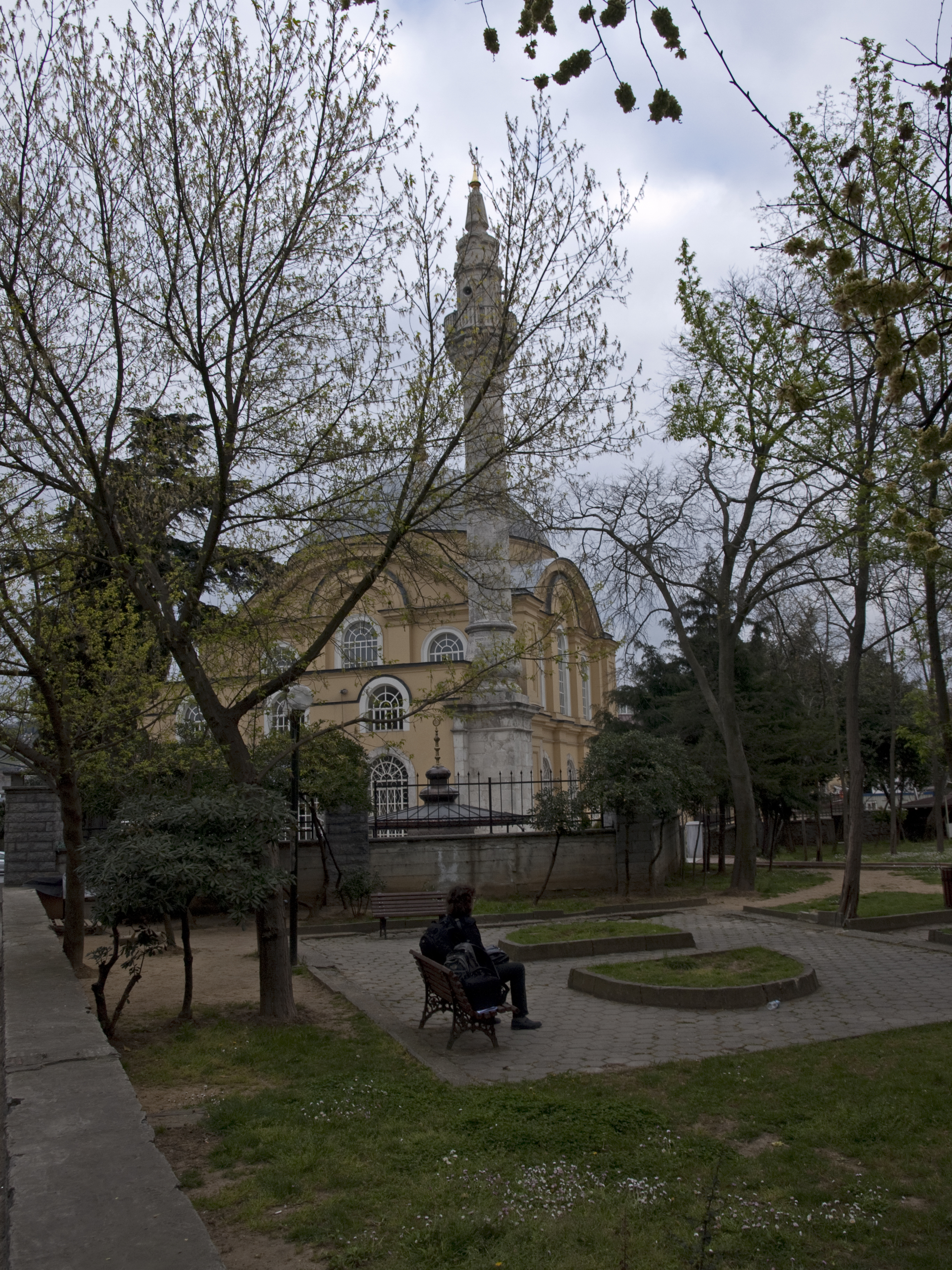 Altunizade Mosque, Uskudar